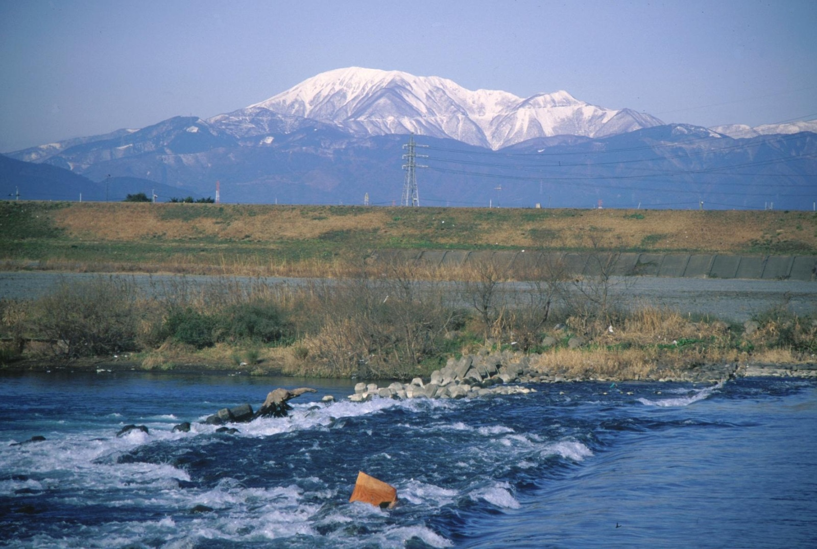 Mount Ibuki seen from Ibi River